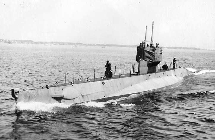 NH-63383 USS L-9. underway (cropped)